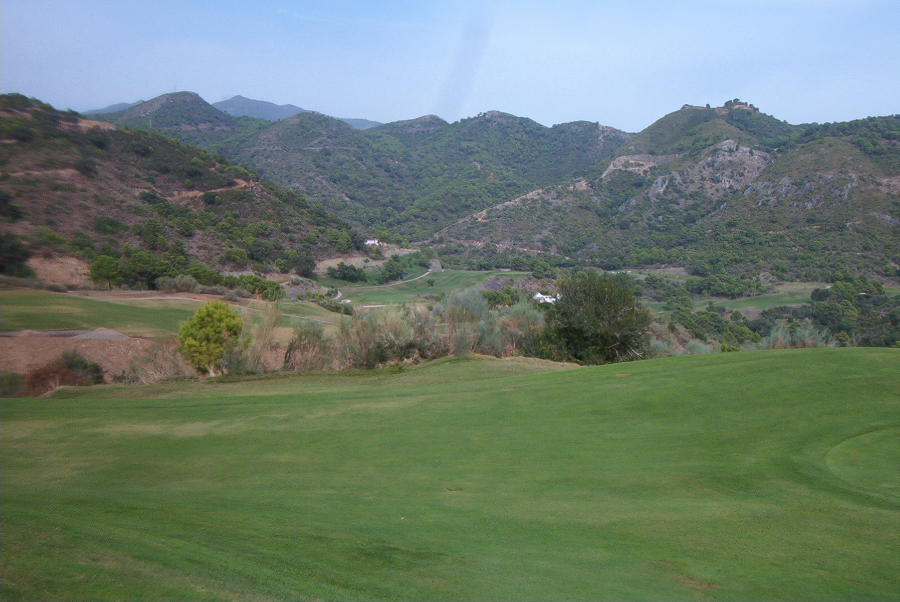 Golf course Monte Mayor in Benahavís, Andalusia, Spain